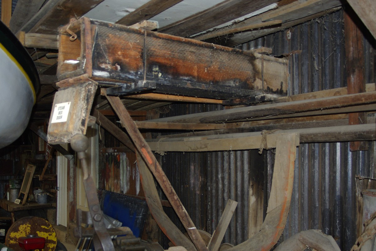 Steam box with opened door at Port Lincoln, South Australia